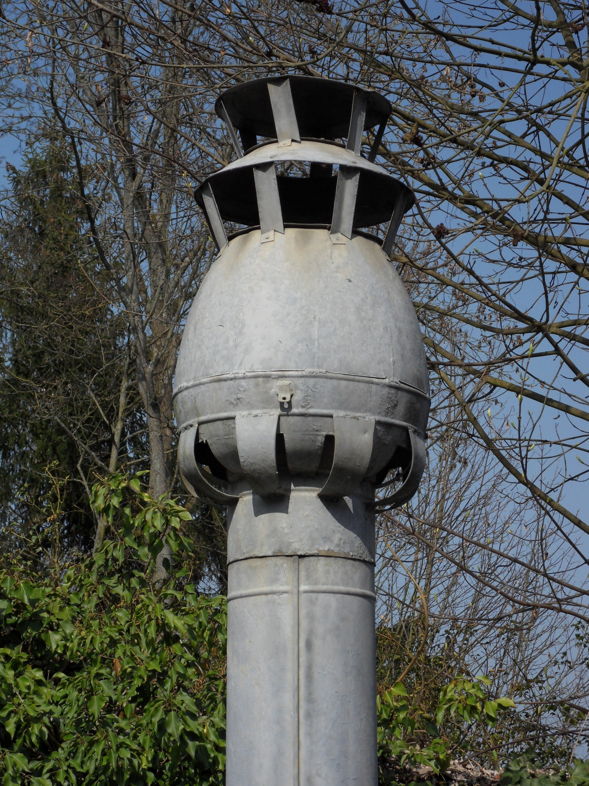 Low chimney rue Saint-Thibault, in Provins, Seine-et-Marne, France.